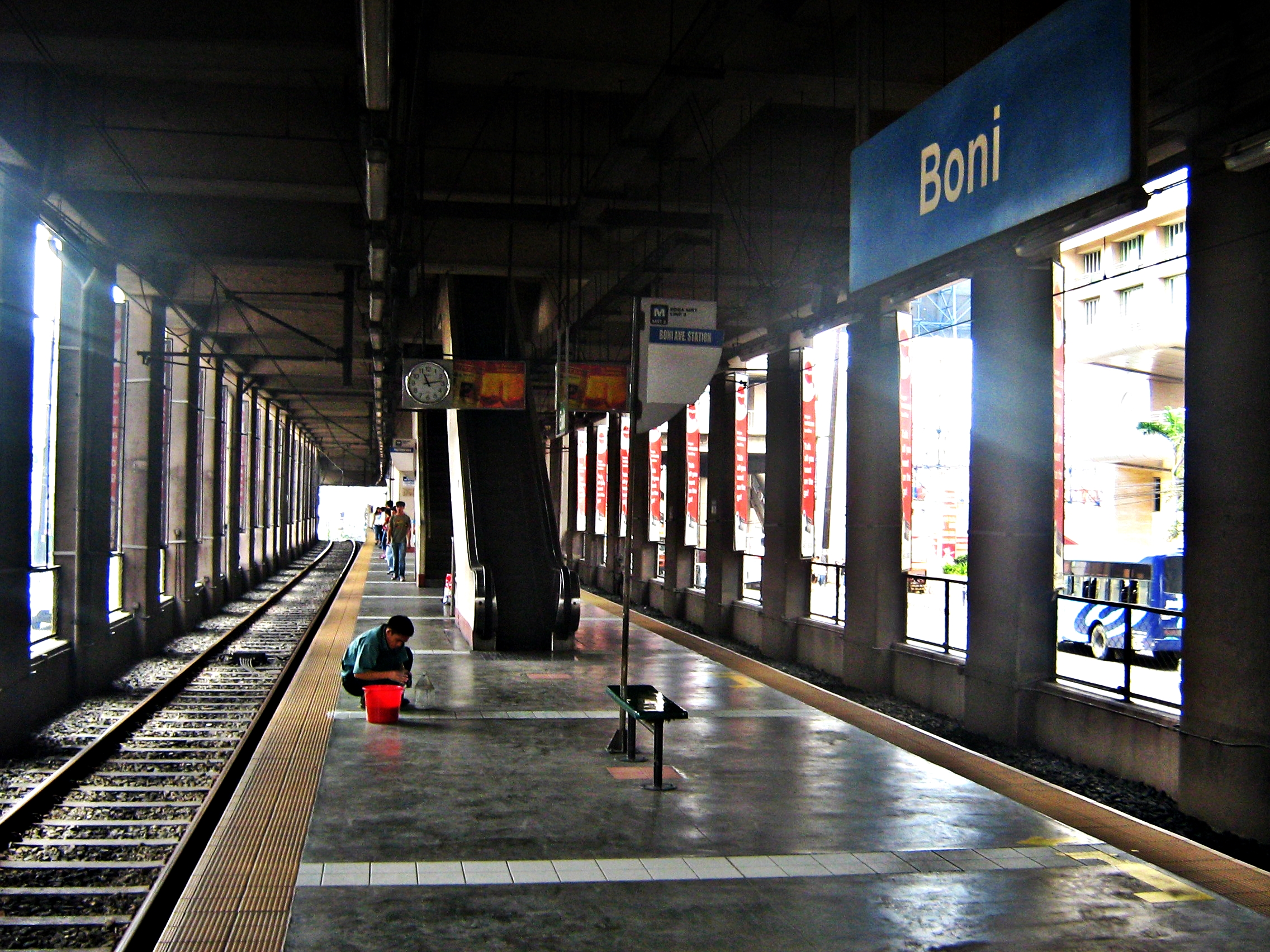 MRT-3 Boni Station Photo taken by Exec8 October 7, 2007.